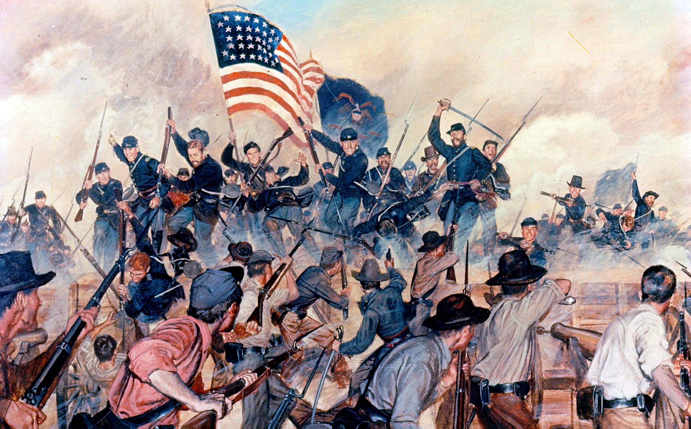 This painting titled "First at Vicksburg" is part of the US Army Center of Military History "US Army in Action" series. Pictured are the Confederate Lines, Vicksburg, Mississippi, 19 May 1863. In this assault against bitter resistance the 1st Battalion, 13th Infantry, lost forty-three percent of its men, but of the attacking force, it alone fought its color up the steep slope to the top. General Sherman called its performance "unequalled in the Army" and authorized the 13th Infantry to inscribe "First at Vicksburg" on its color. Although it took two more months of hard fighting to capture Vicksburg and split the Confederacy, no episode illustrates better the indomitable spirit of Americans on both sides.